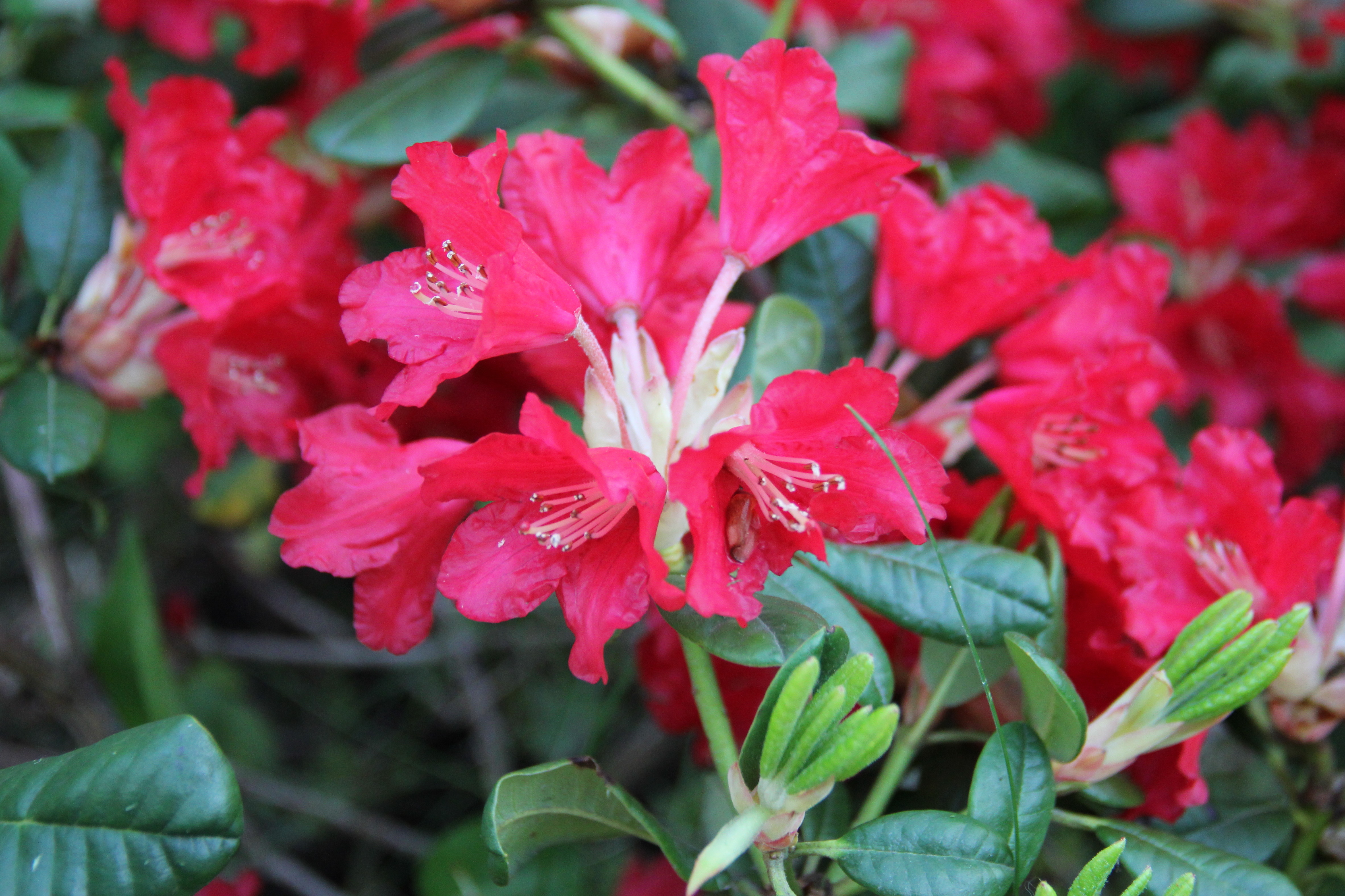 Rhododendron 'Elviira'. Helsinki, Finland. -Rhododendron brachycarpum subsp. tigerstedtii × hybrid of Rhododendron forrestii var. repens